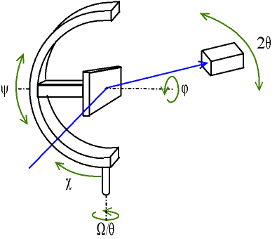 X-ray diffractometer: Eulerian cradle, or four circles diffractometer. The difference between ψ and χ is the zero reference and the orientation: χ = π/2 - φ (rad) or χ = 90 - φ (deg).